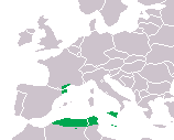 Distribution of Discoglossus pictus, based on Nöllert/Nöllert (1992): "Die Amphibien Europas" and Global Amphibian Assessment/IUCN.